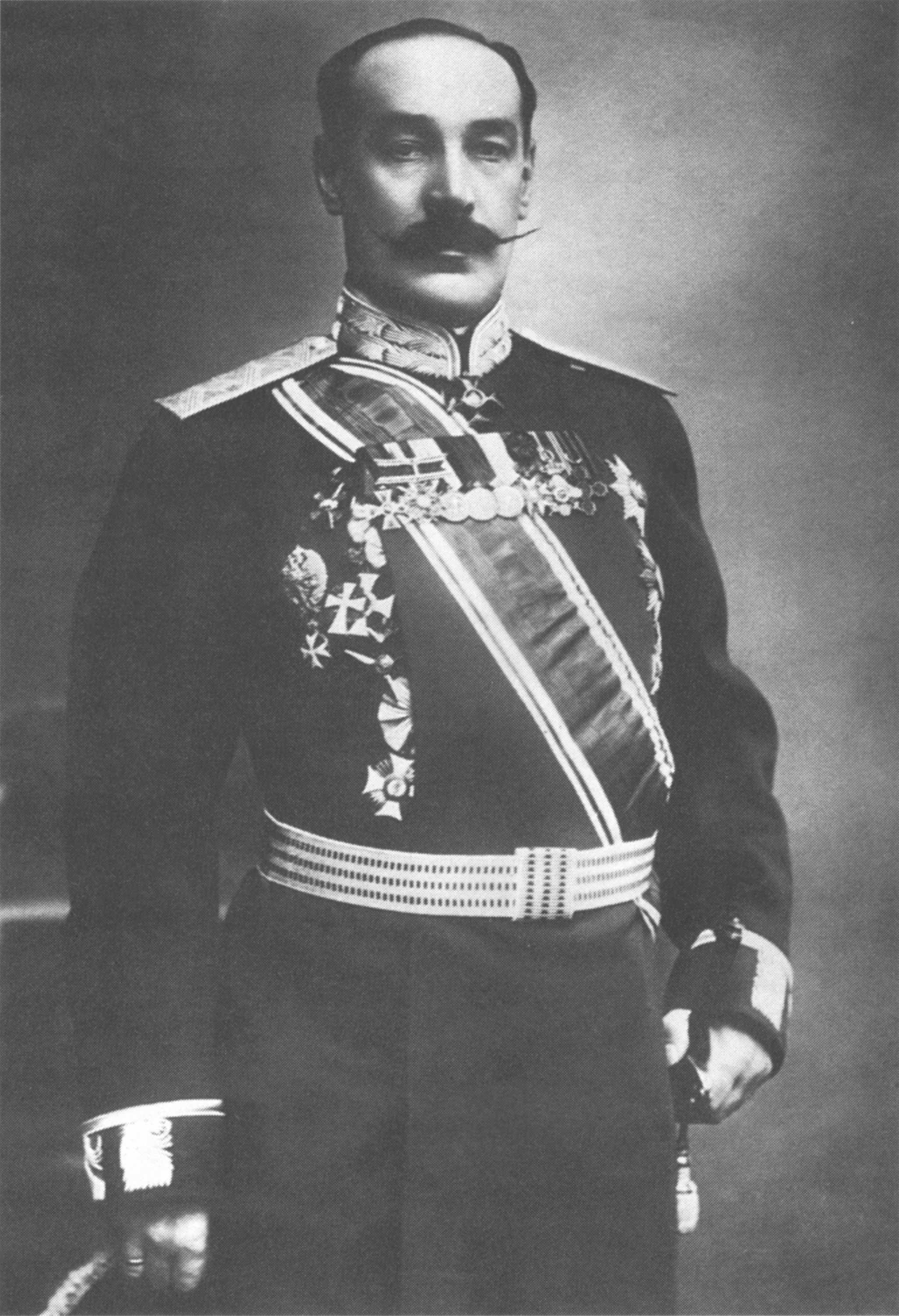 Vladimir Alexandrovich Dedyulin (1858-1913), was a Governor General of St Petersburg. 1900s.